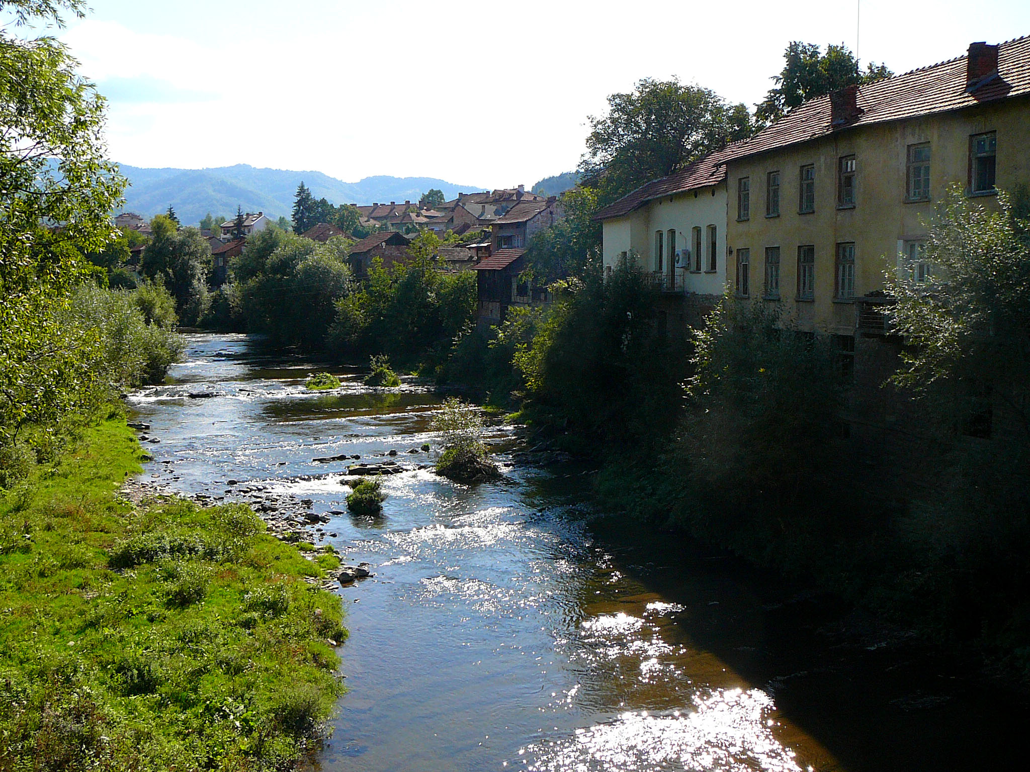 Troyan, town in Bulgaria